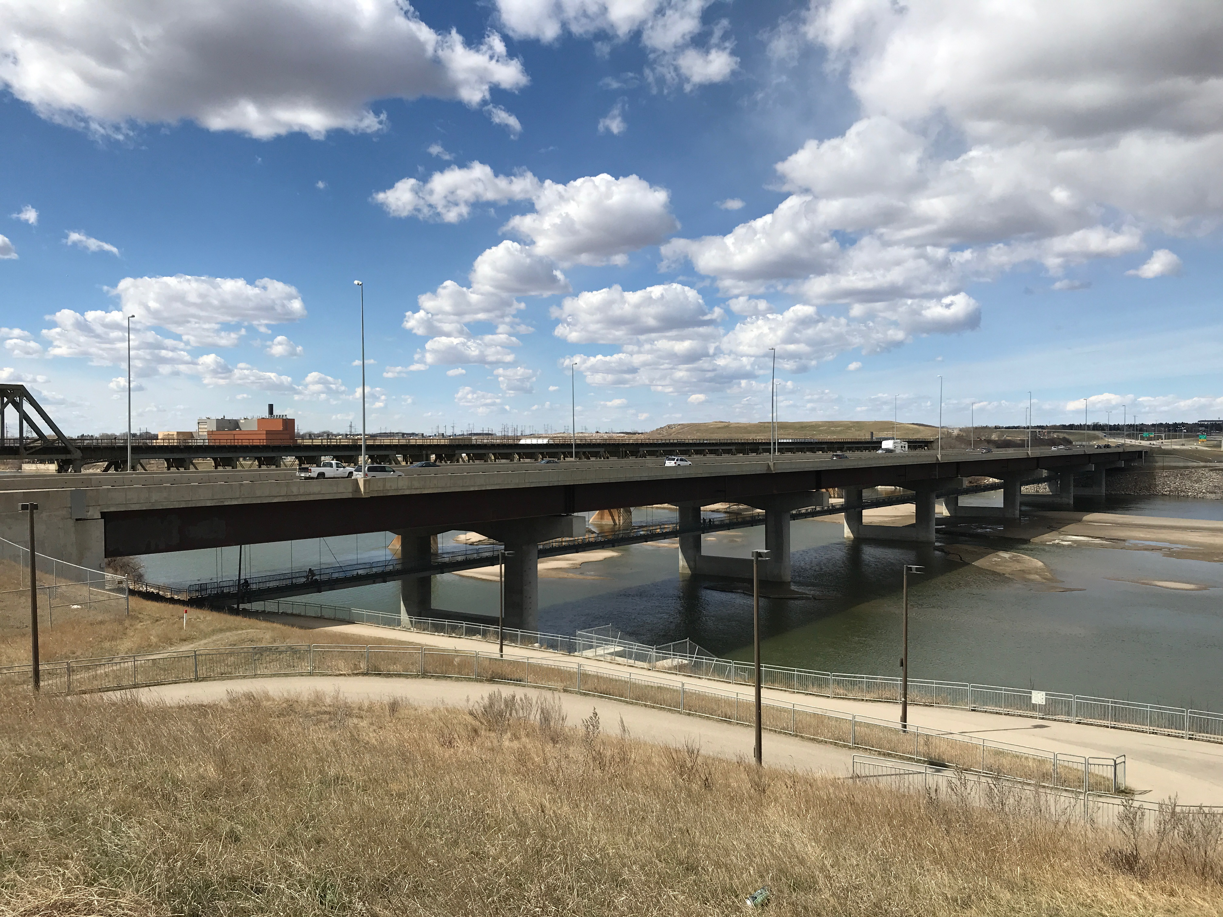 Gordie Howe Bridge, a six-lane vehicular bridge that is the southernmost leg of Circle Drive in Saskatoon, Saskatchewan, Canada. It is the southernmost vehicular bridge of the Circle Drive orbital road that encircles the city of Saskatoon.